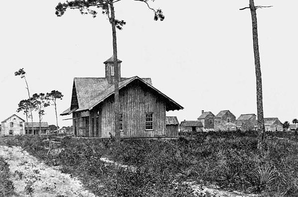 Railroad Depot, Titusville, FL; from a c. 1905 postcard.